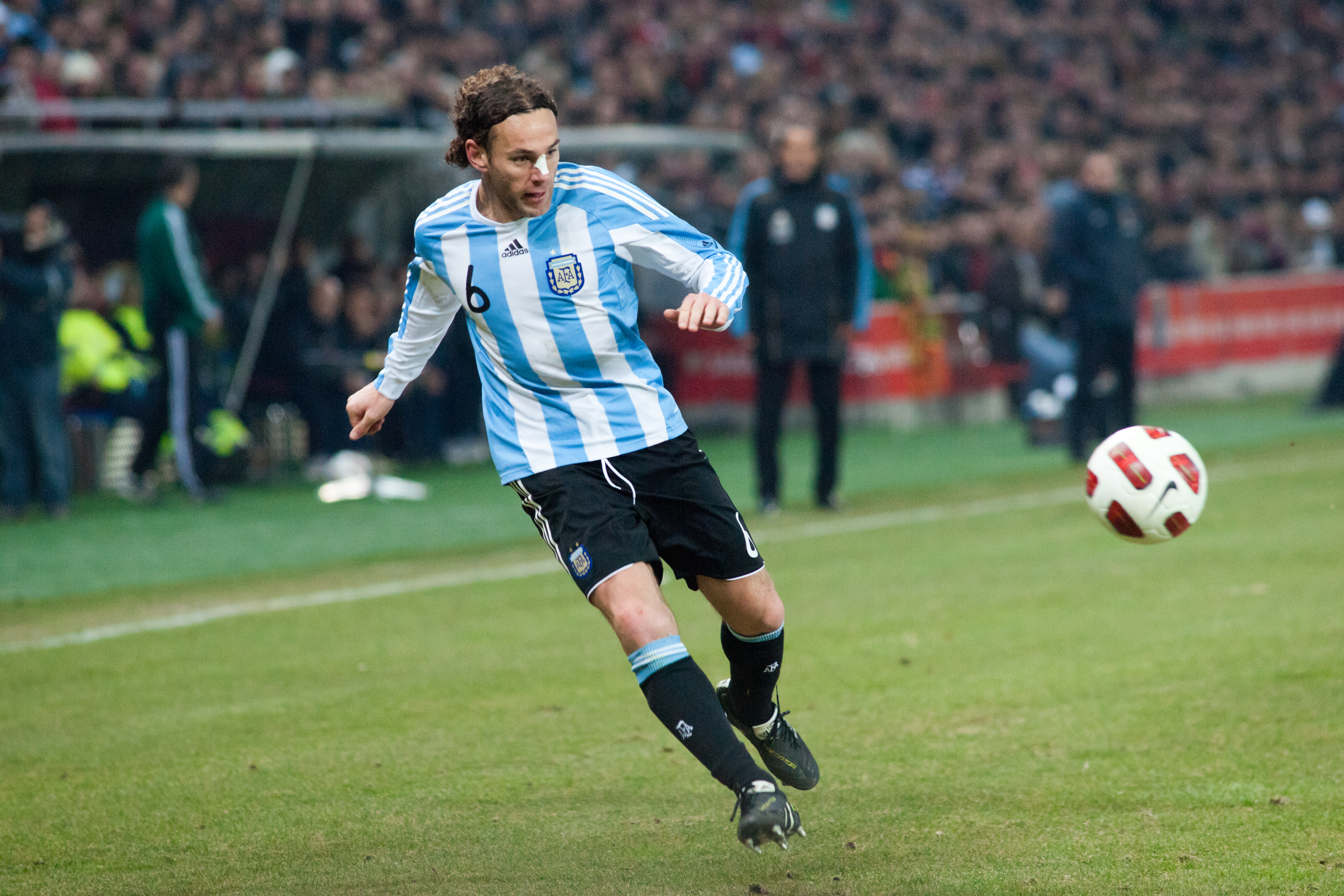 The making of this document was supported by Wikimedia CH. (Submit your project!) For all the files concerned, please see the category Supported by Wikimedia CH. Portugal vs. Argentina, 9th February 2011